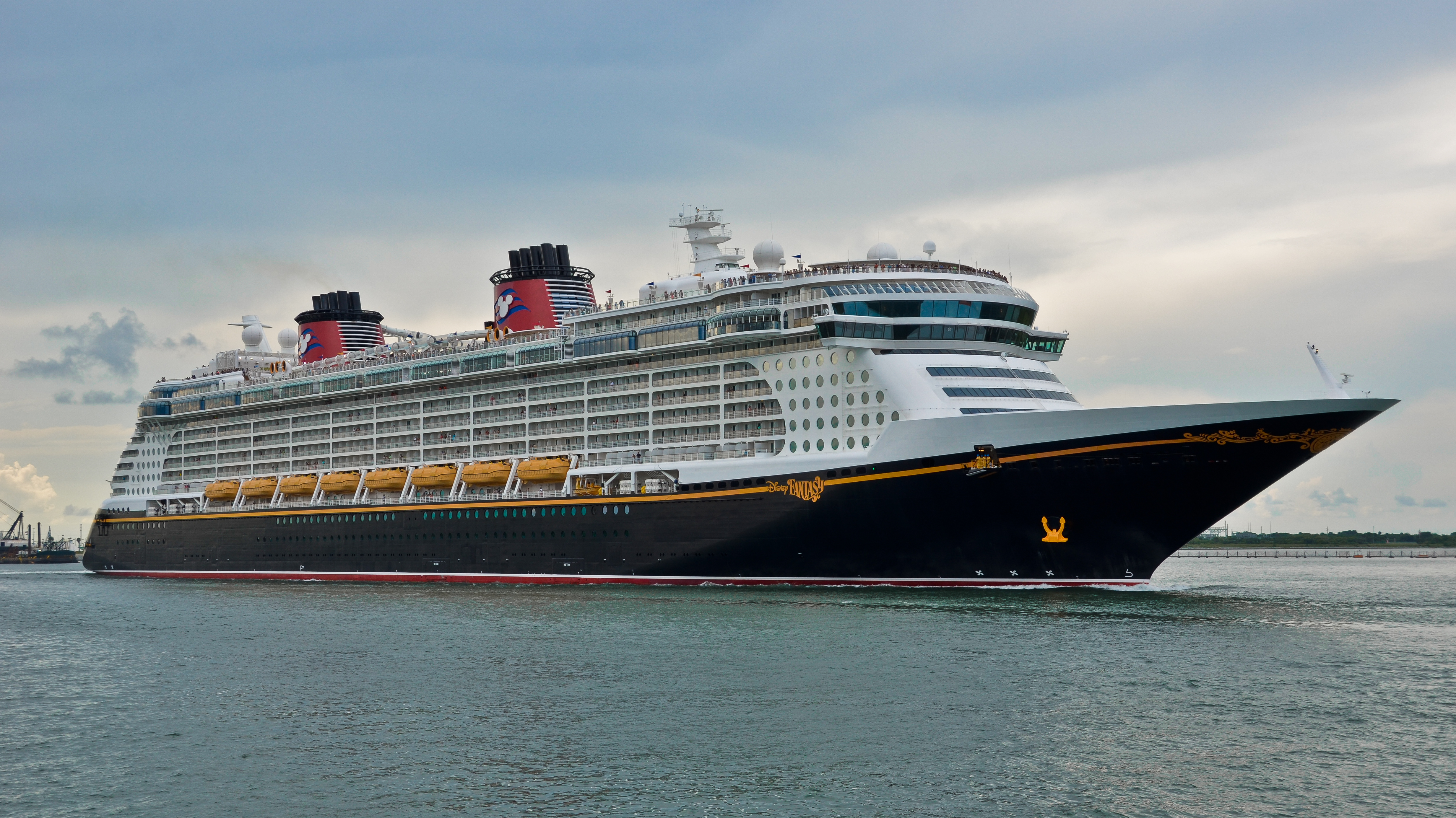 Disney Fantasy departing from Port Canaveral.